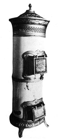 iron stove, made in the Călan (Pusztakalán) factory, at turn of the 19th and 20th centuries